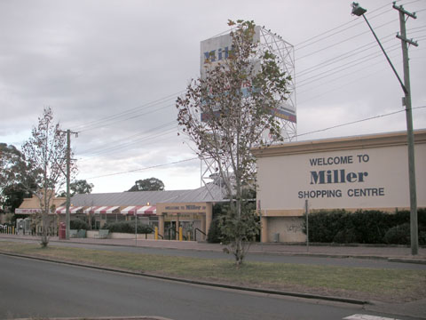 Shopping centre in Miller, NSW